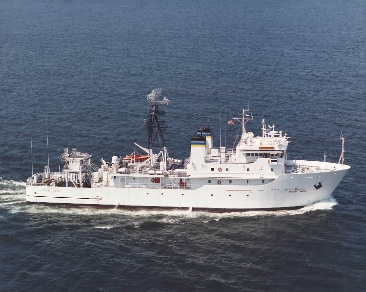 United States Navy Military Sealift Command ocean surveillance ship USNS Indomitable (T-AGOS-7) departing Charleston, South Carolina